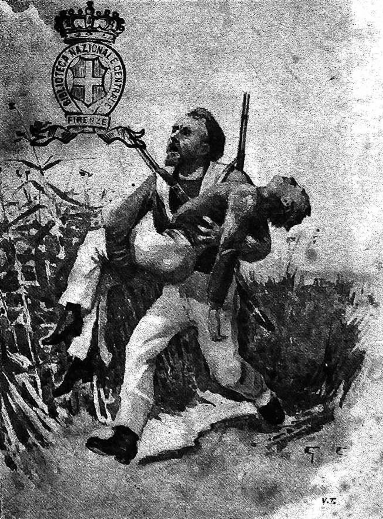 An Italian novel by Emilio Salgari